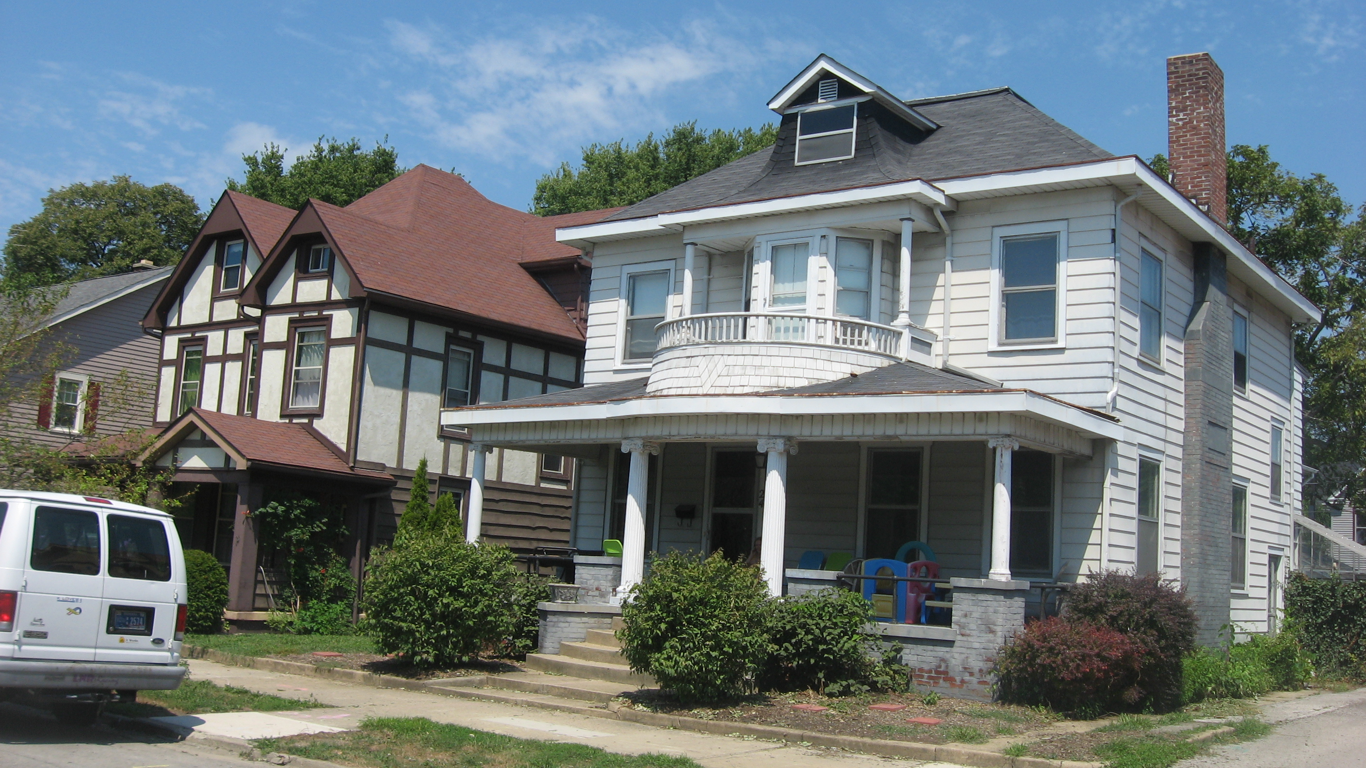 Houses on the northern side of the first block of W. Mechanic Street Street in Shelbyville, Indiana, United States. This block is part of the West Side Historic District, a historic district that is listed on the National Register of Historic Places.